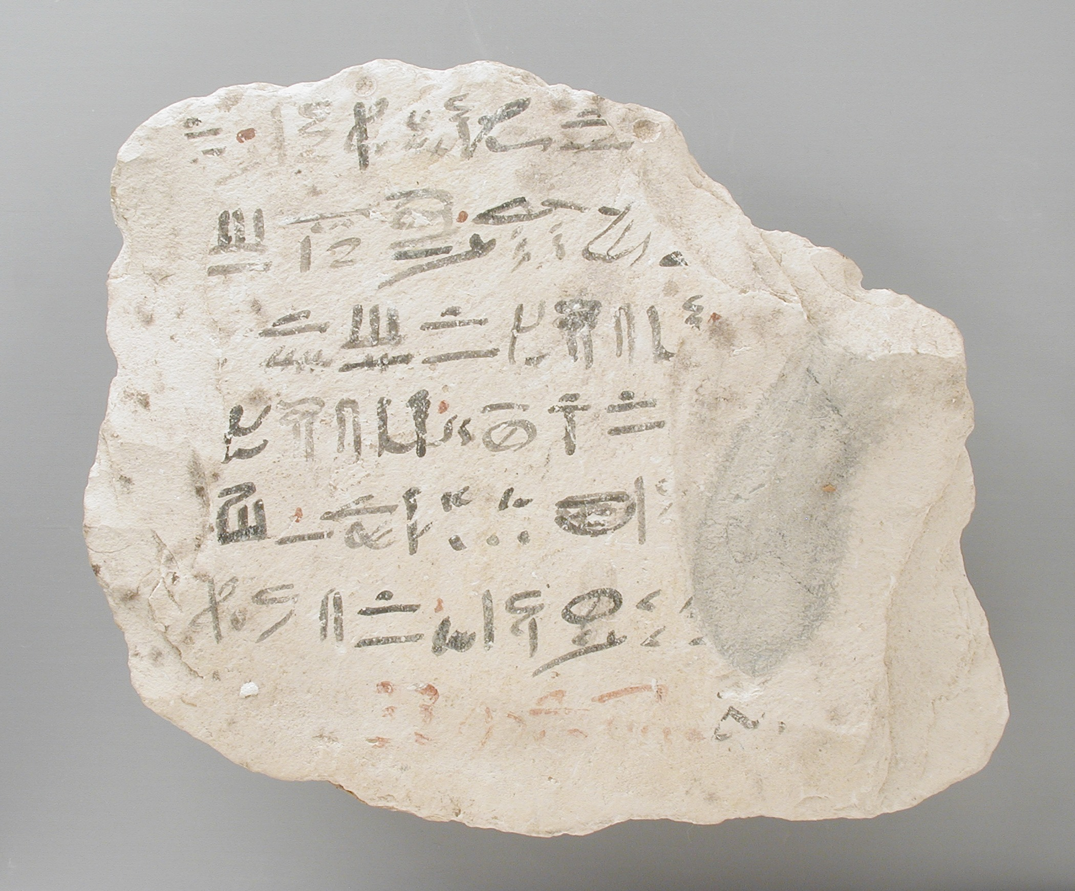 Egypt, New Kingdom, Ramesside Period, 19th-20th Dynasty (1315-1081 BCE) Tools and Equipment; ostraka Limestone 5 1/8 x 5 11/16 in. (13 x 14.5 cm) Gift of Carl W. Thomas (M.80.203.196) Egyptian Art